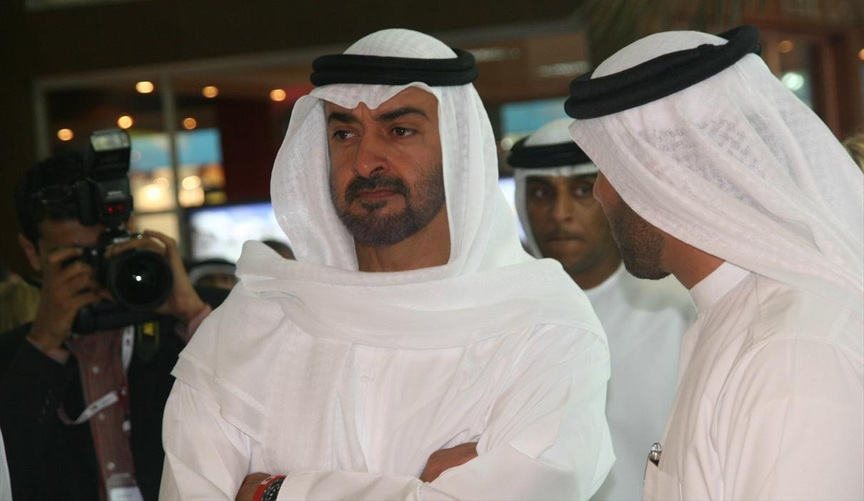 This is a photo of Sheikh Mohammed bin Zayed Al Nahyan at the Cityscape Abu Dhabi 2008 on 13 May 2008.